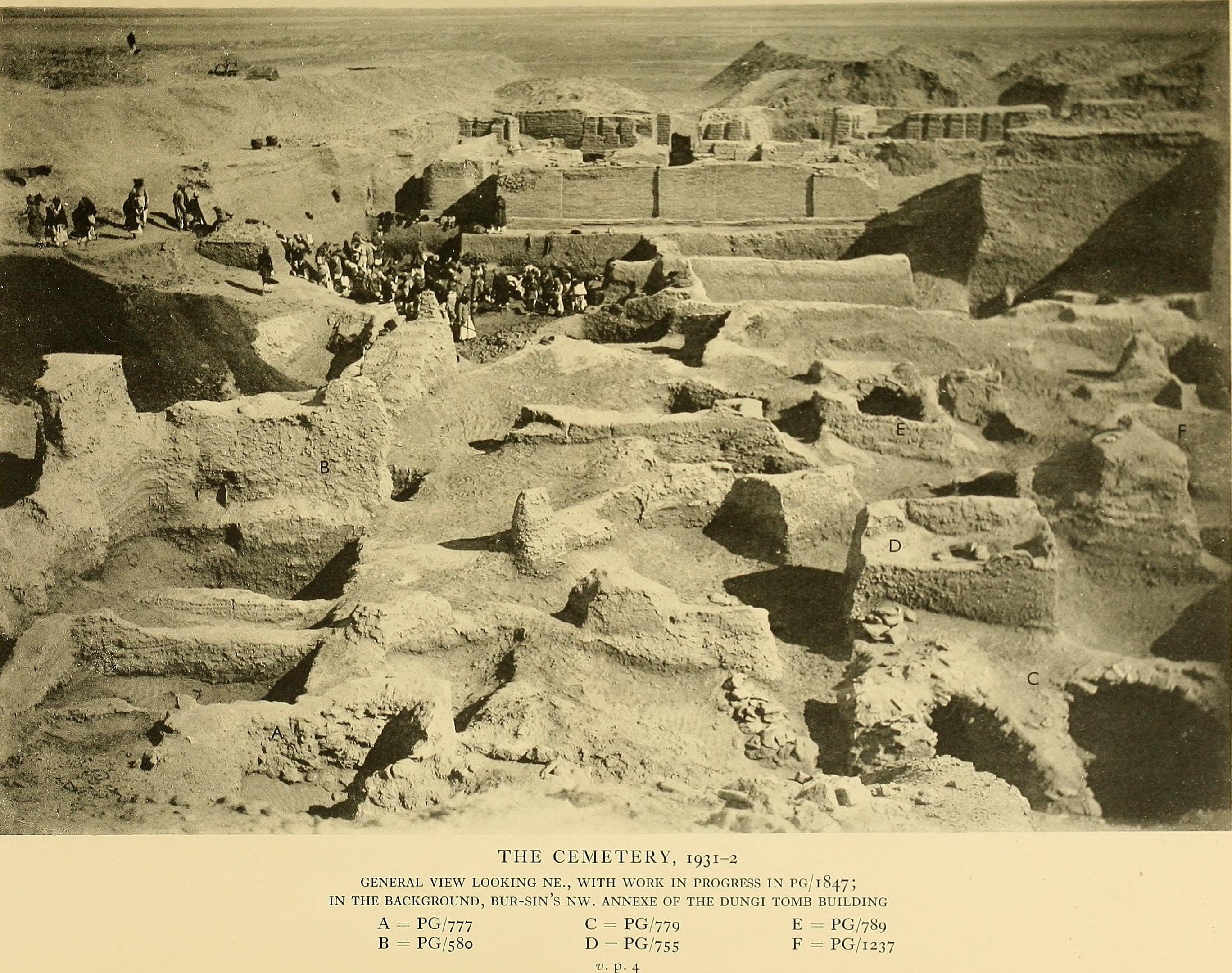 Title: Ur excavations Year: 1900 (1900s) Authors: Joint Expedition of the British Museum and of the Museum of the University of Pennsylvania to Mesopotamia Hall, H. R. (Harry Reginald), 1873-1930, ed Woolley, Leonard, Sir, 1880-1960 Legrain, Leon, 1878- ed Subjects: Publisher: (n.p.) Pub. for the Trustees of the Two Museums by the aid of a grant from the Carnegie Corporation of New York Text Appearing Before Image: MAUSOLEA OF DUNGI AND BUR-SIN SCALE Of METRES F. G. NEWTON. A. S. WHITBURN, A.R.I.B.A. C. L. WOOLLEY, HON. A.R.I.B.A. J. C. ROSE, A.R.I.B.A. MENS ET DELT. . I922-I932. PLATE 3 Text Appearing After Image: PLATE 5